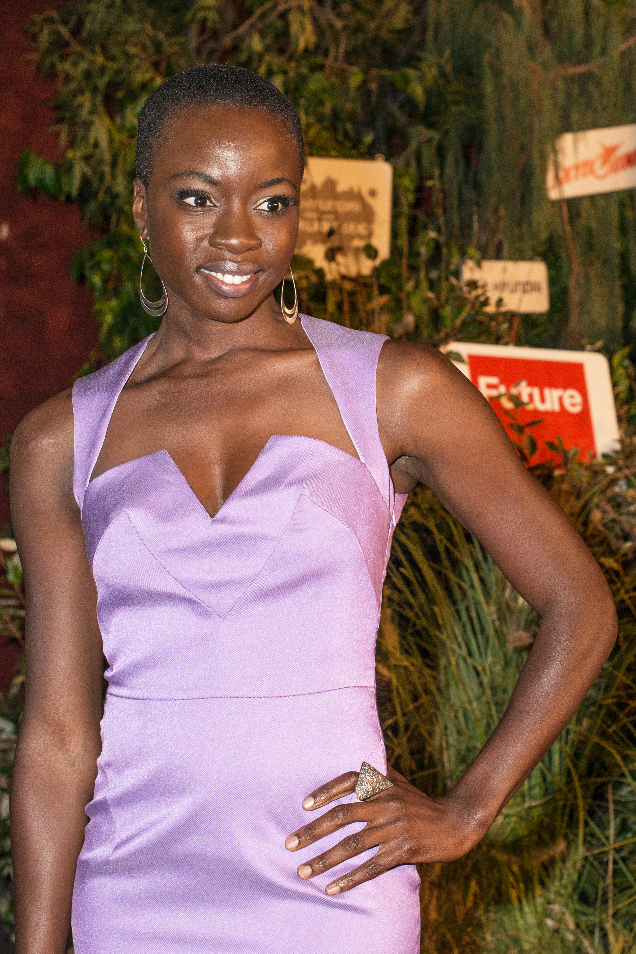 Danai Gurira at a Walking Dead event in 2013